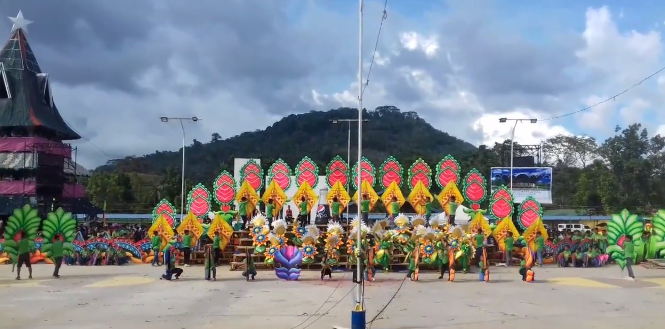 dancing Buug people